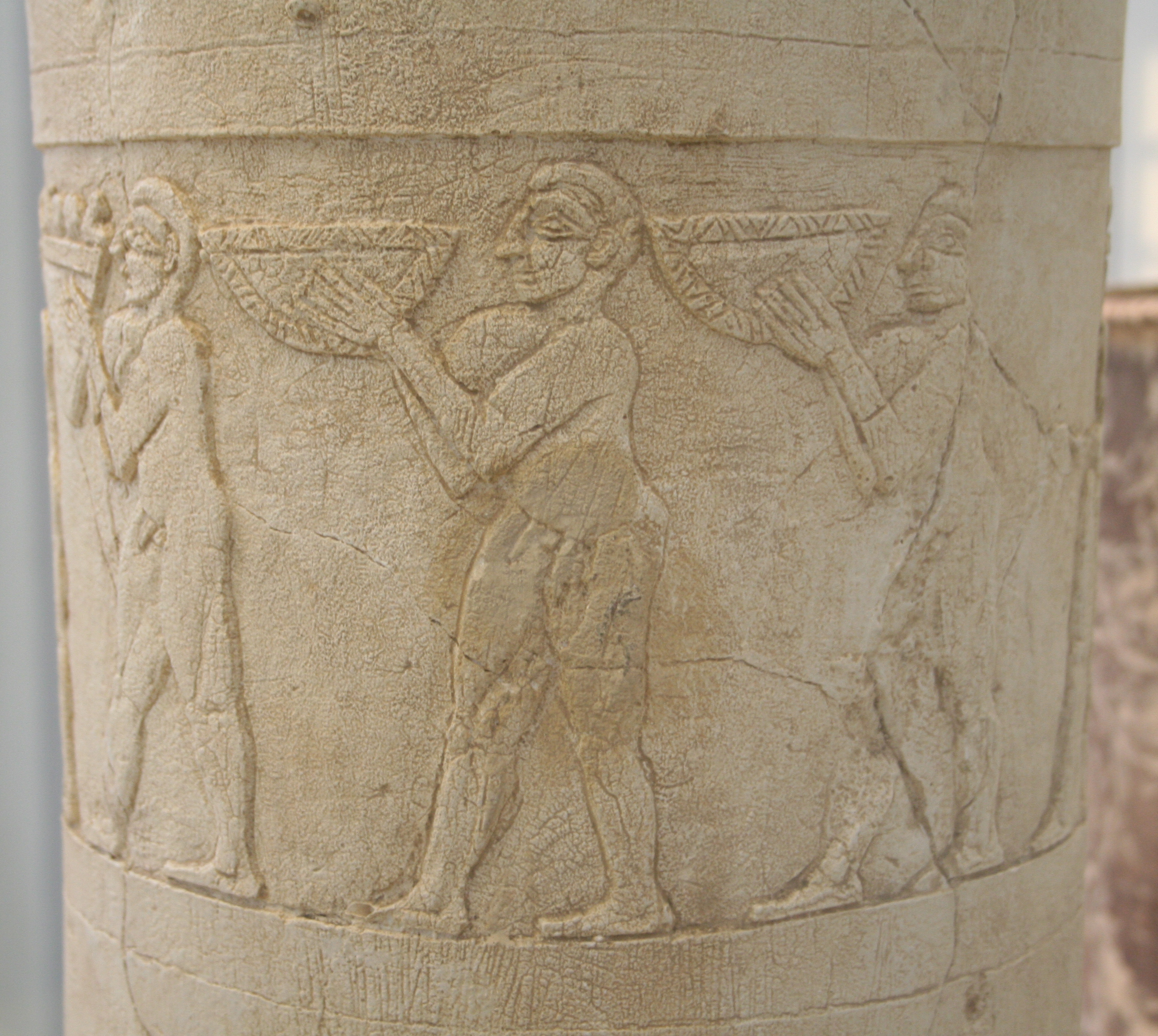 Vorderasiatisches Museum (Near East Museum), Berlin